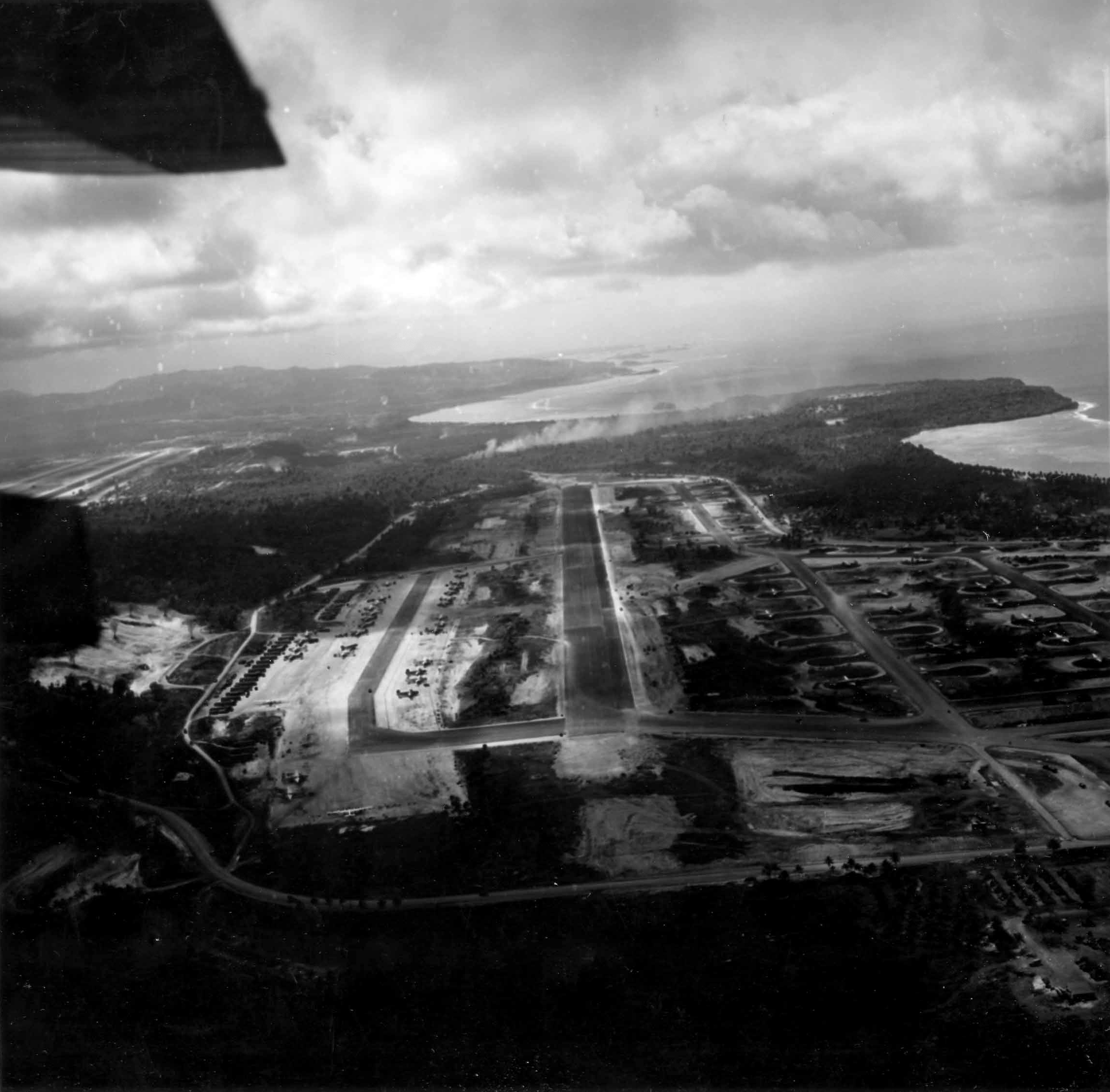 Aerial view of Air Depot Field (20th Air Force) Guam. Construction on this field began on 6 September 1944 and the 2.100 m by 45 m runway became operational on 10 November. USAAF Consolidated B-24 Liberator bombers used it at first to make raids on adjacent Japanese controlled islands. The Japanese had started construction on this field known as Tiyan airfield, in 1944 and the Americans enlarged, improved, and completed it. Air Depot Field, later renamed Harmon Field, is still under construction in this view. The buildings and storage areas were completed by the end of February 1945. The Agana (Naval) airfield is visible at the left of this photo, located on a higher plateau. Agana Bay is visible in the far distance at the end of the Air Depot runway and a small portion of Tumon Bay can be seen in the upper right.